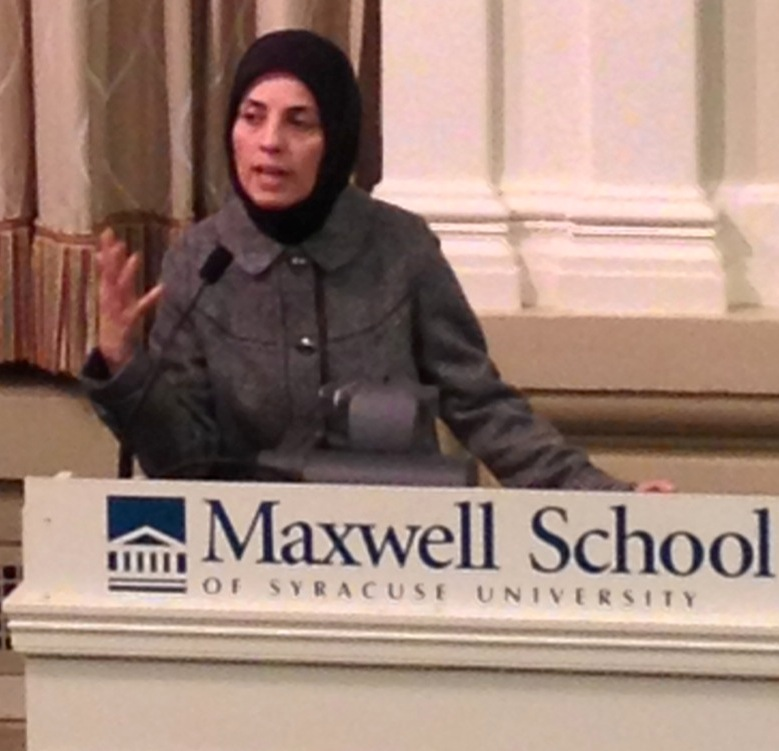 Dr. Merve Kavakci giving lecture on "Islam in the West" at Syracuse University on September 28, 2012.